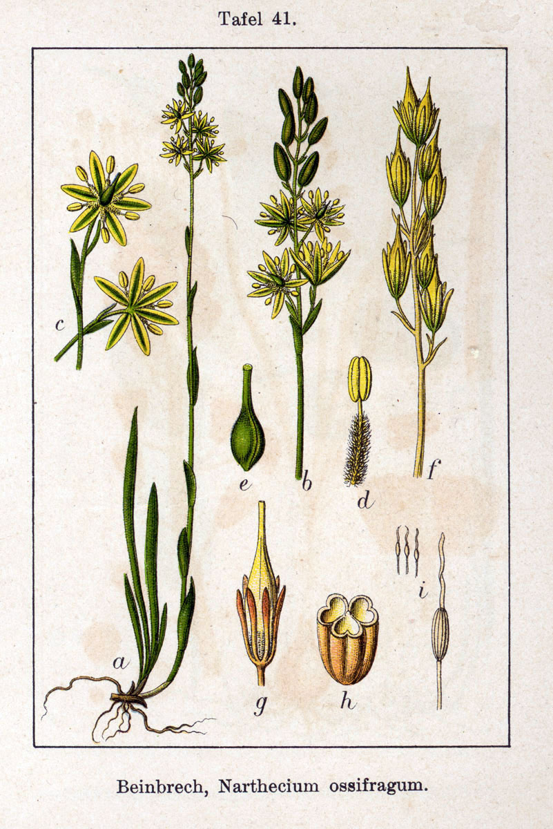 Narthecium ossifragum - Fig. from book